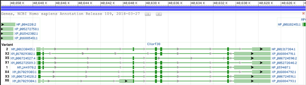 CXorf38 isoforms from NCBI